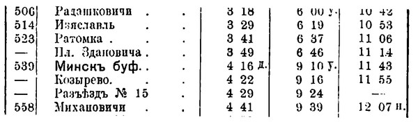 Train timetable of Liepaja–Romny line from 1914